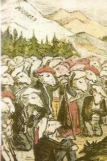 part of a cartoon published in 1870 by a Spanish liberal periodical La Flaca. The fragment trimmed presents Carlist followers as sheep from the Pyrenees